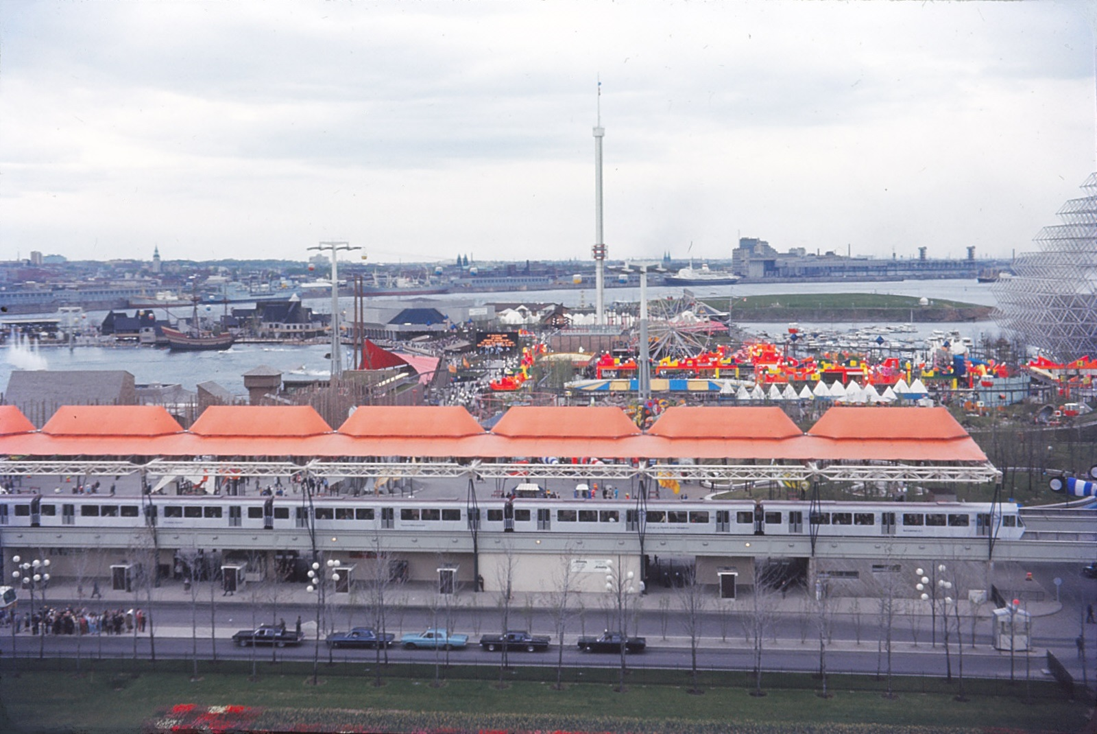 La Ronde, the Expo-Express train station, the Lac des Dauphins, the fair-ground attractions, the marina. Expo 67, Montreal, Quebec, Canada, may 1967.